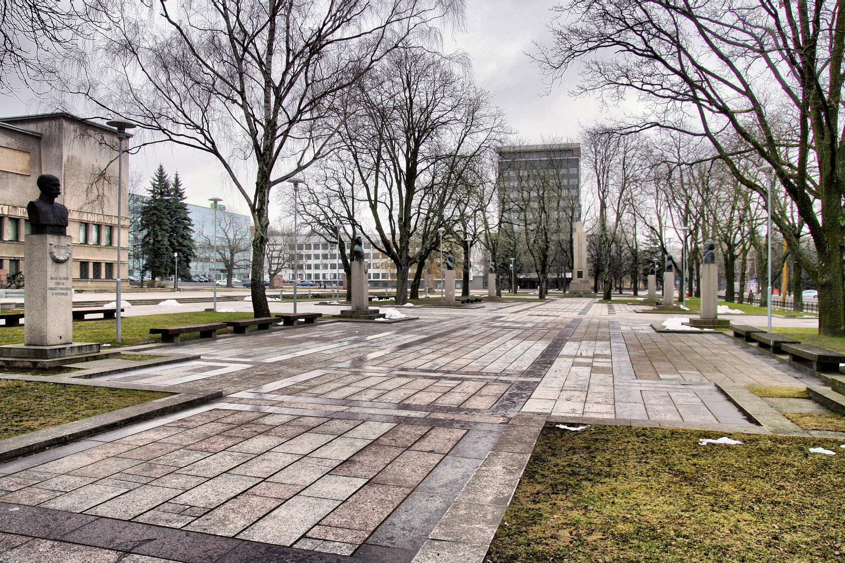 Kaunas Vienybė Square.